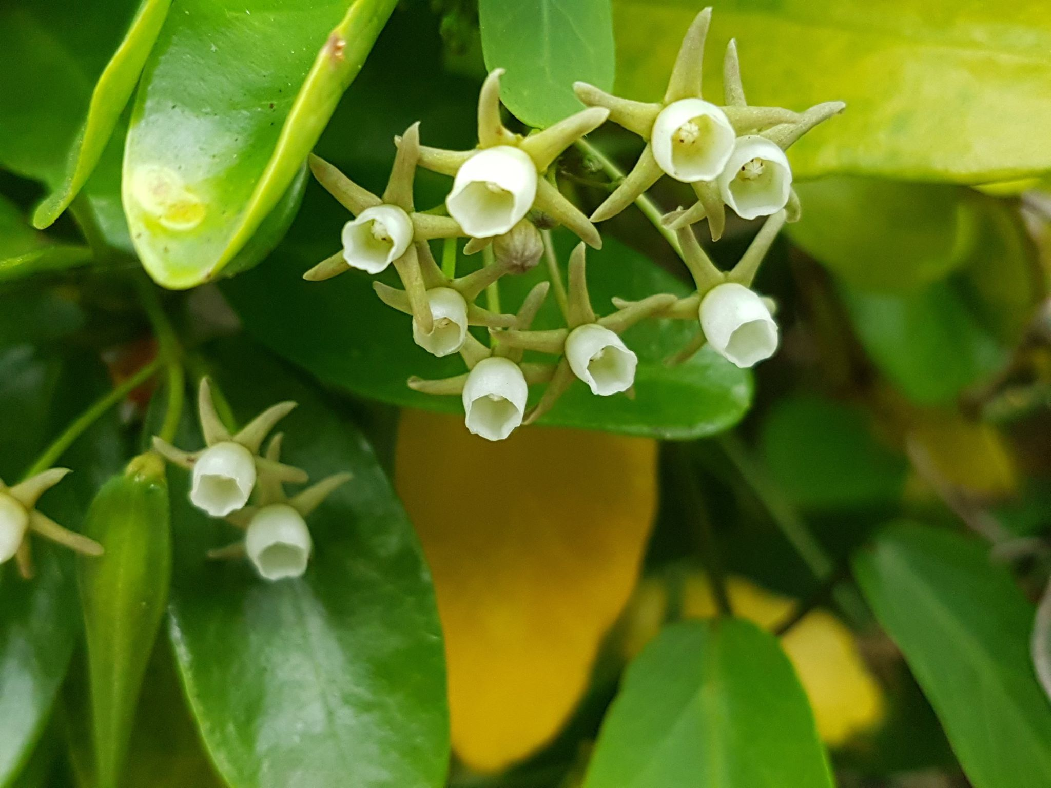 Cynanchum ellipticum (Harv.) R.A.Dyer - flowers of vigorous creeper from Nature's Valley, South Africa